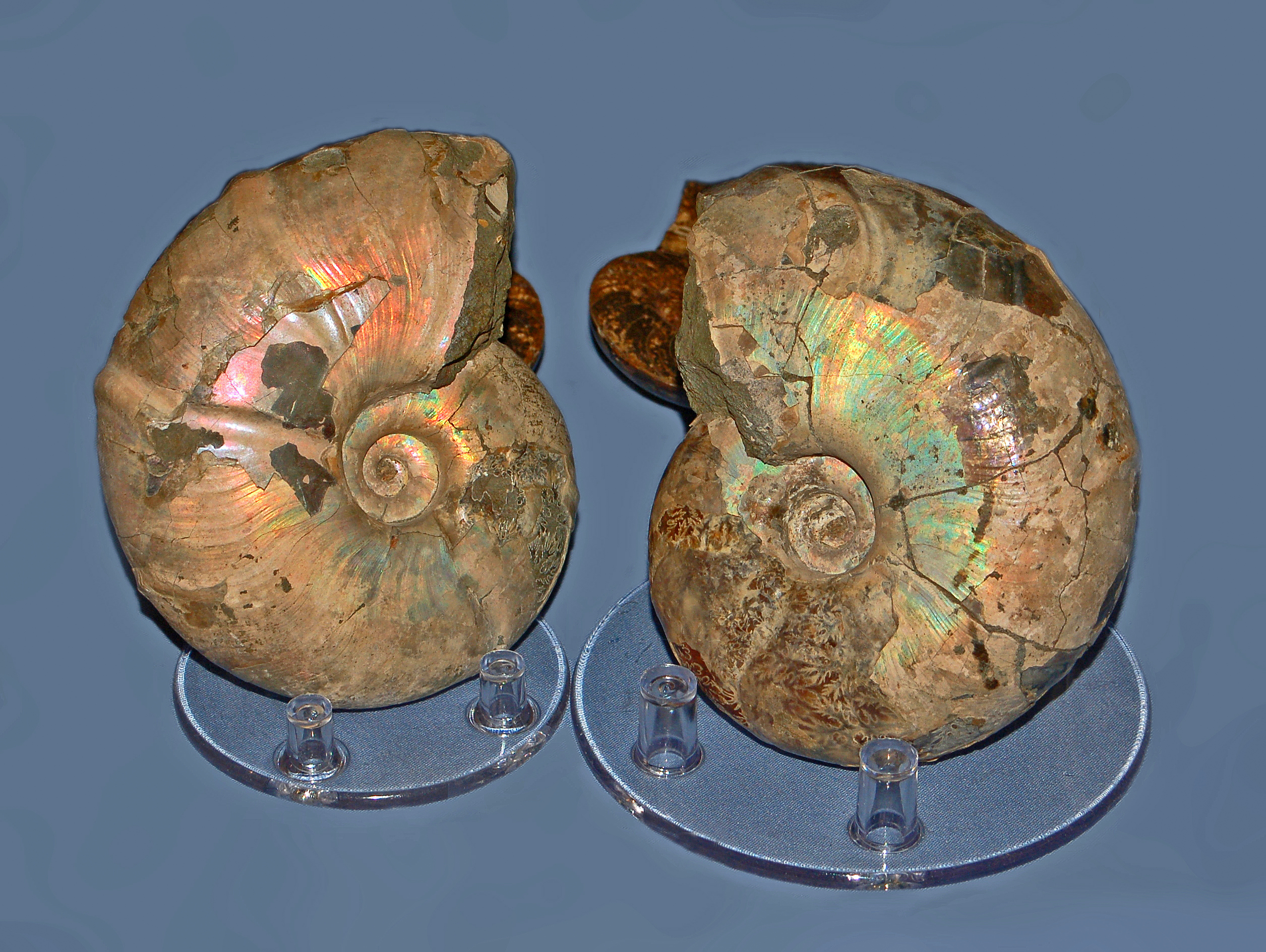 Desmoceras sp. – Lower cretaceous (Albian) from Mahajanga